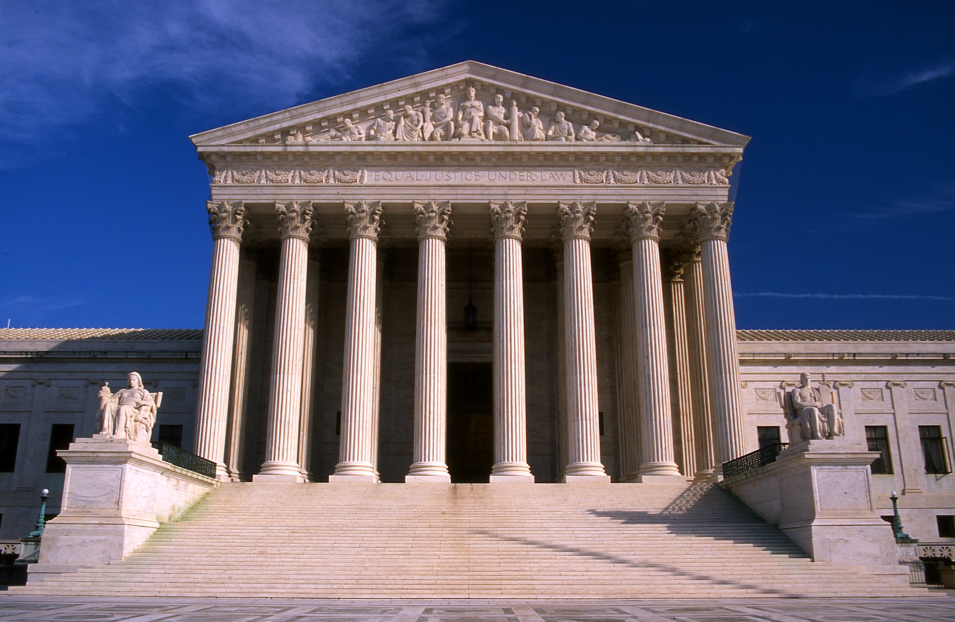 United States Supreme Court building.